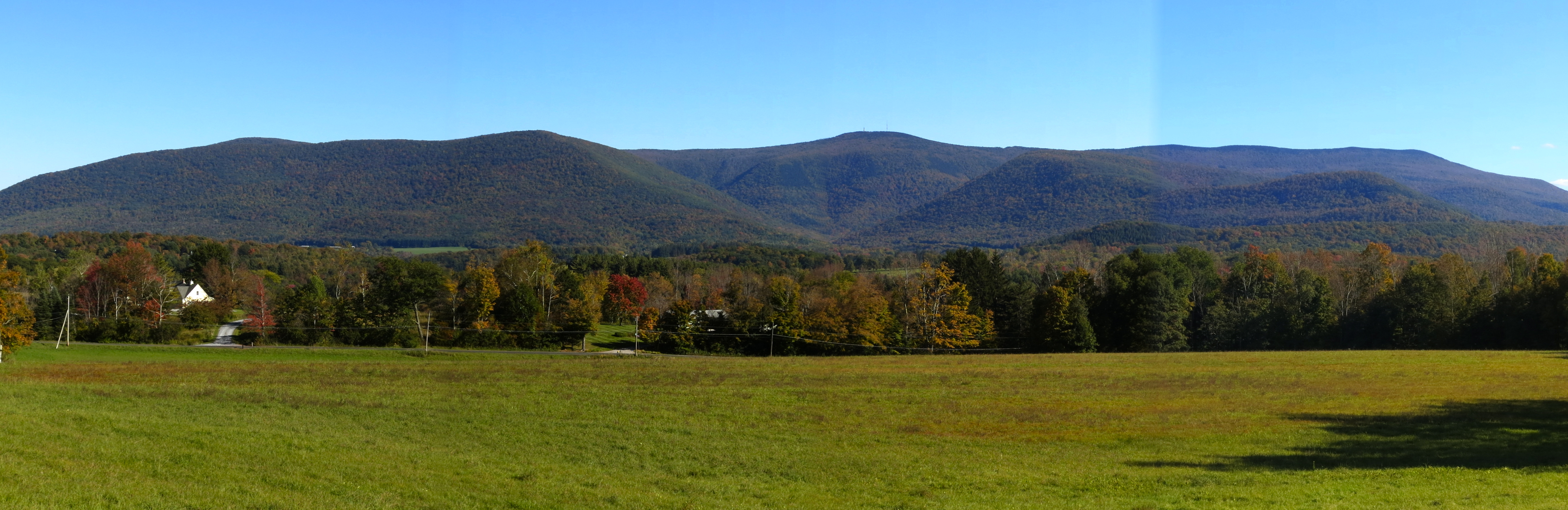 View of the Range from South Williamstown